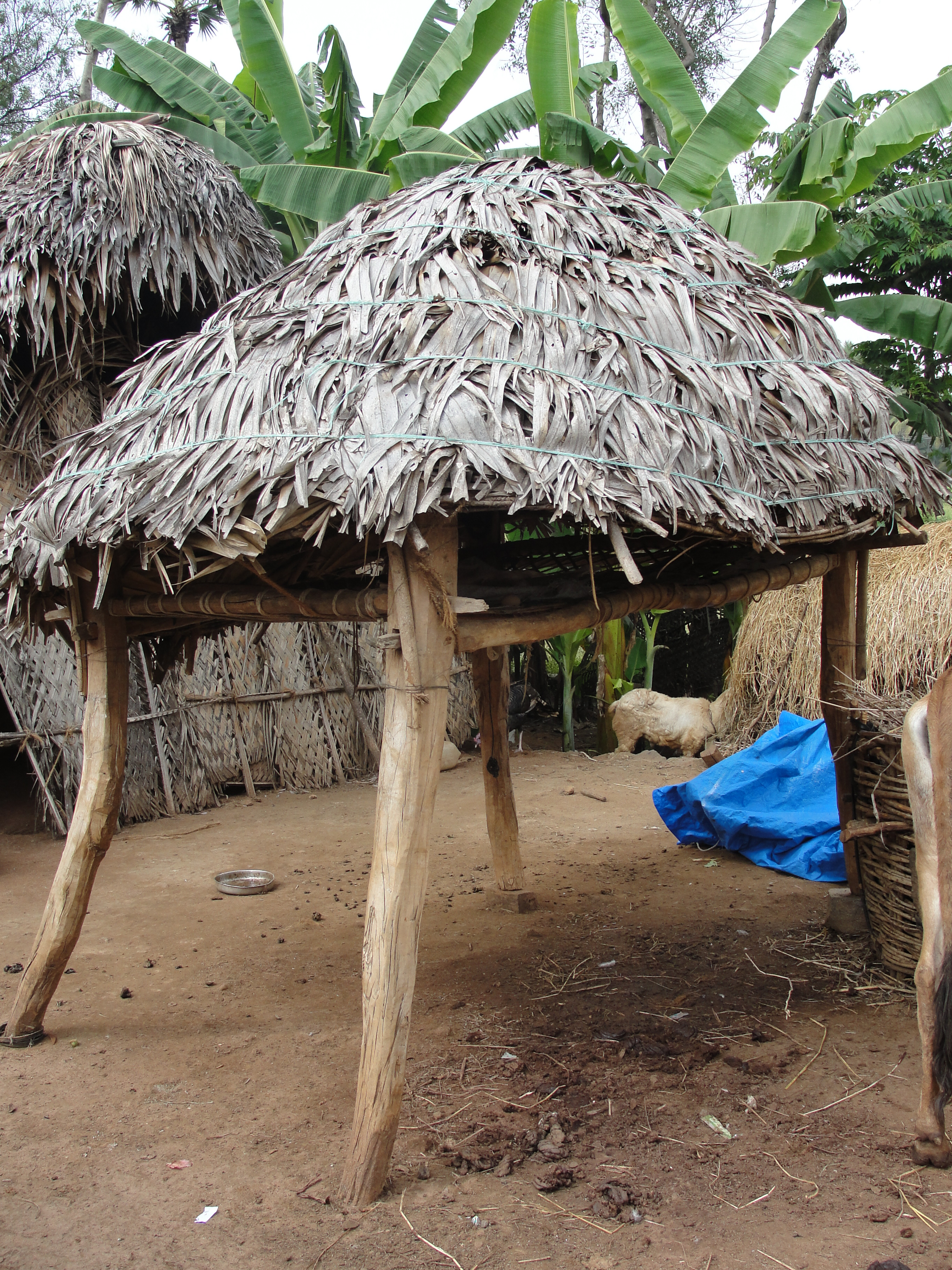 This picture depicting a traditional hut in Tamil Nadu.